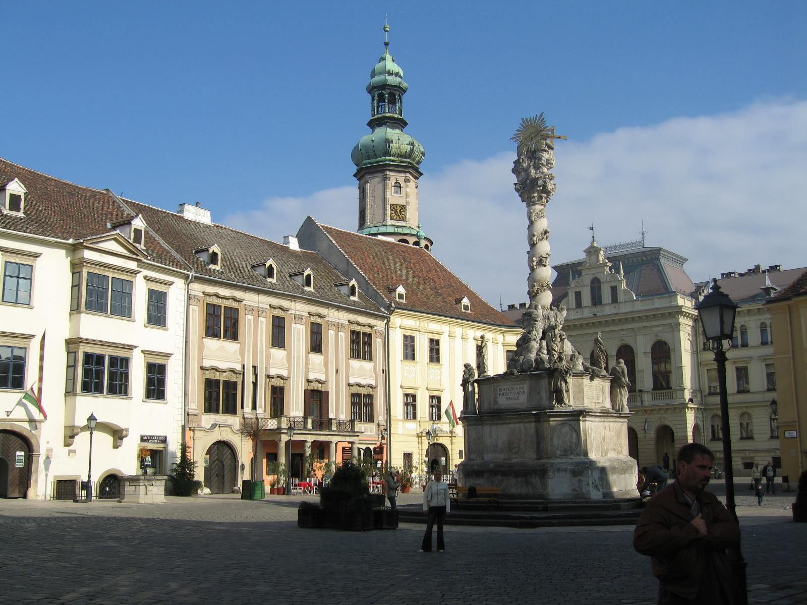 Main square, Marian column, #6 Fabricius-House (14th century), #7 General and Lackner House at background the Fire Tower